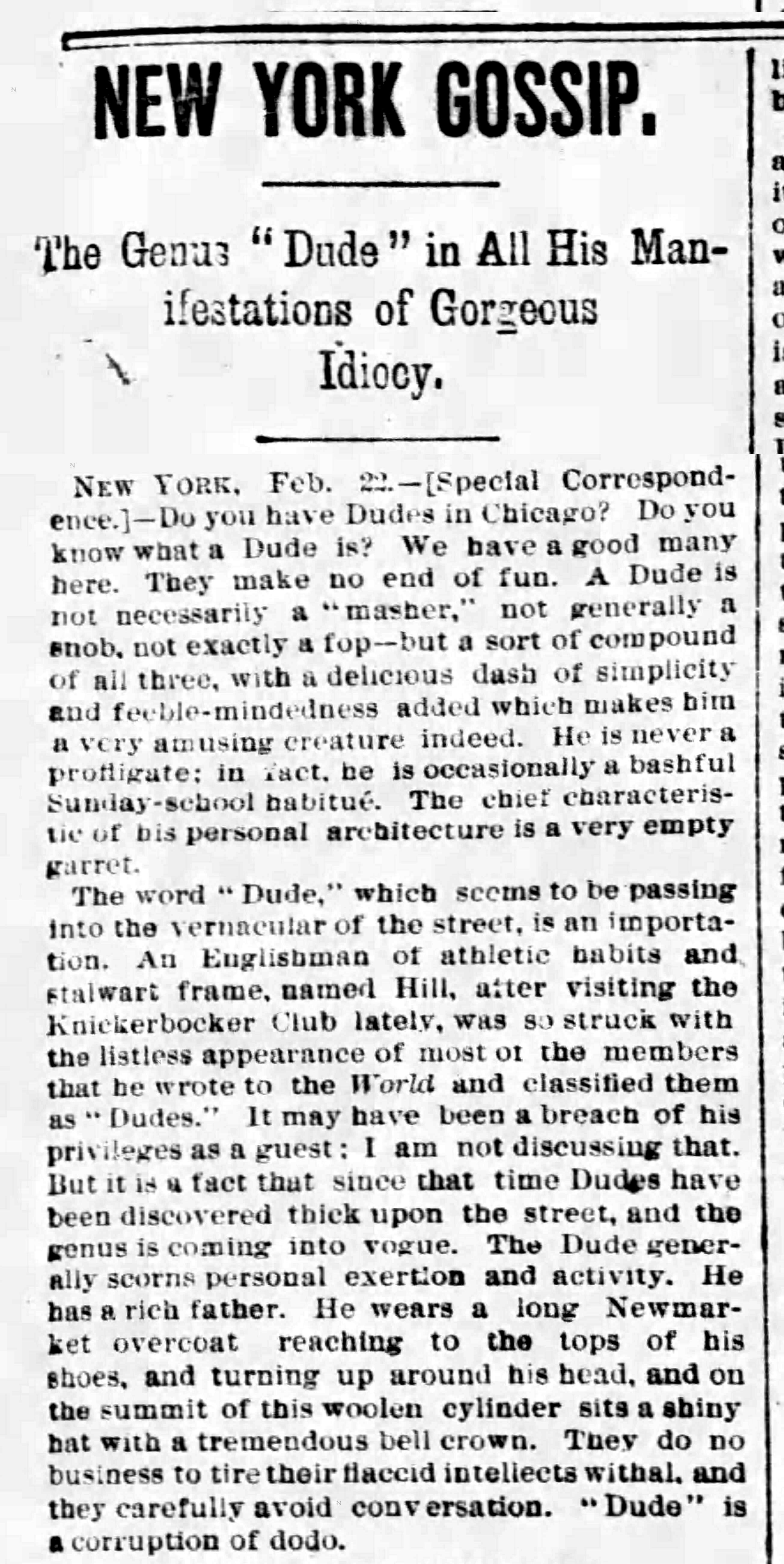 Among the very first published descriptions defining "dude".